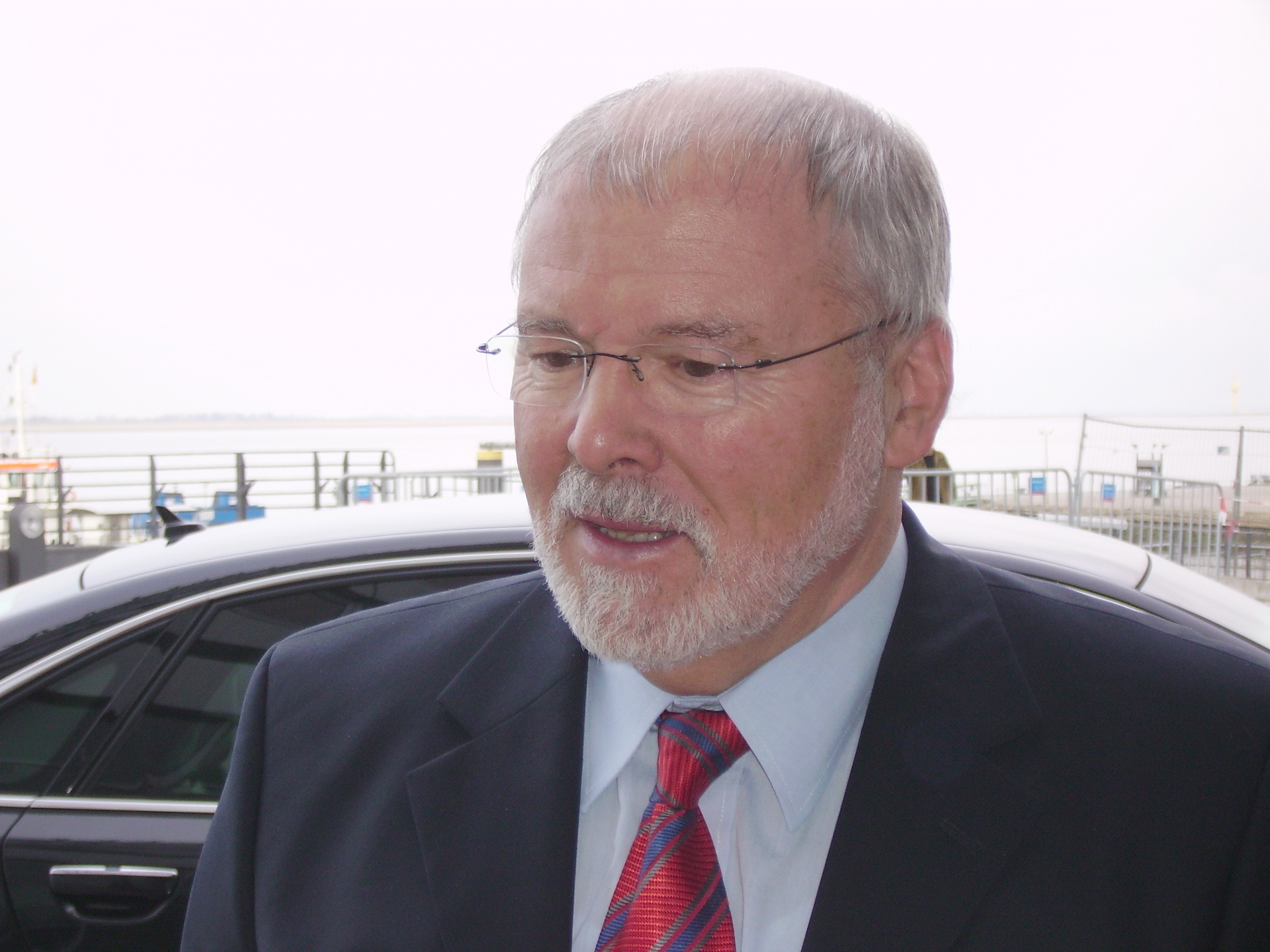 Harald Ringstorff, Prime Minister of the German federal state of Mecklenburg-Vorpommern, at the conference of the Prime Ministers of the federal states of Northern Germany in Bremerhaven on 17 April 2008